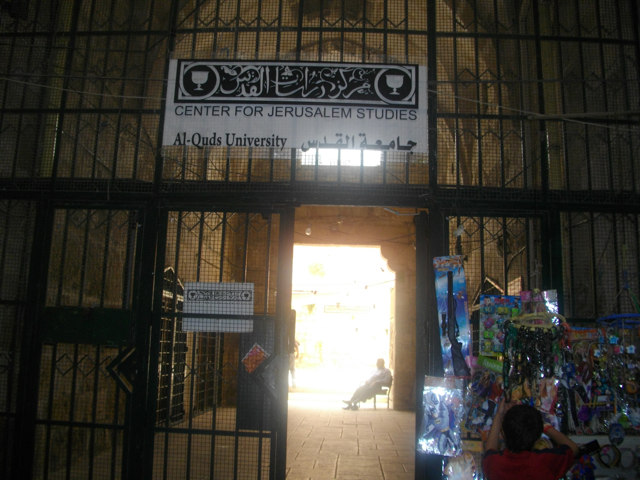 The entrance to the center for Jerusalem studies of Al-Quds university